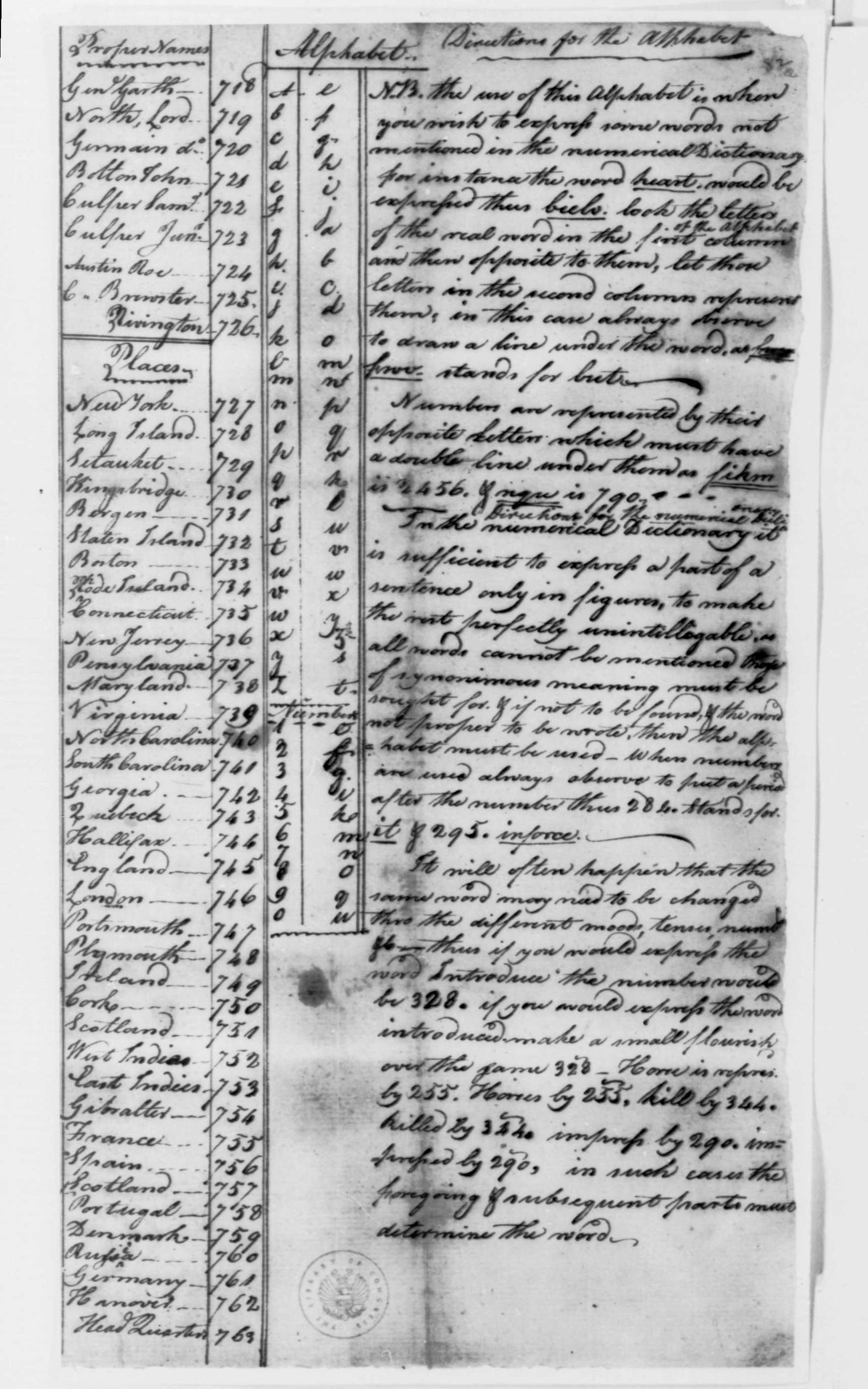 A page from the code book of the Culper Spy Ring during the American Revolutionary War. On the left of the page are the names of people and places side-by-side with numbers that serve as their code representations.